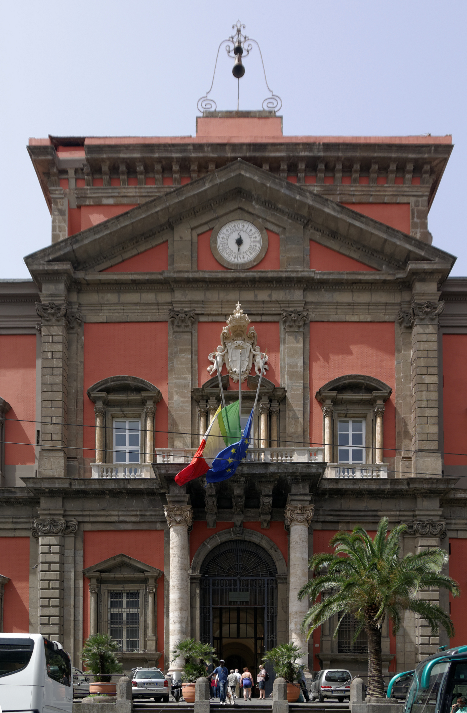 Naples, National Archaeological Museum